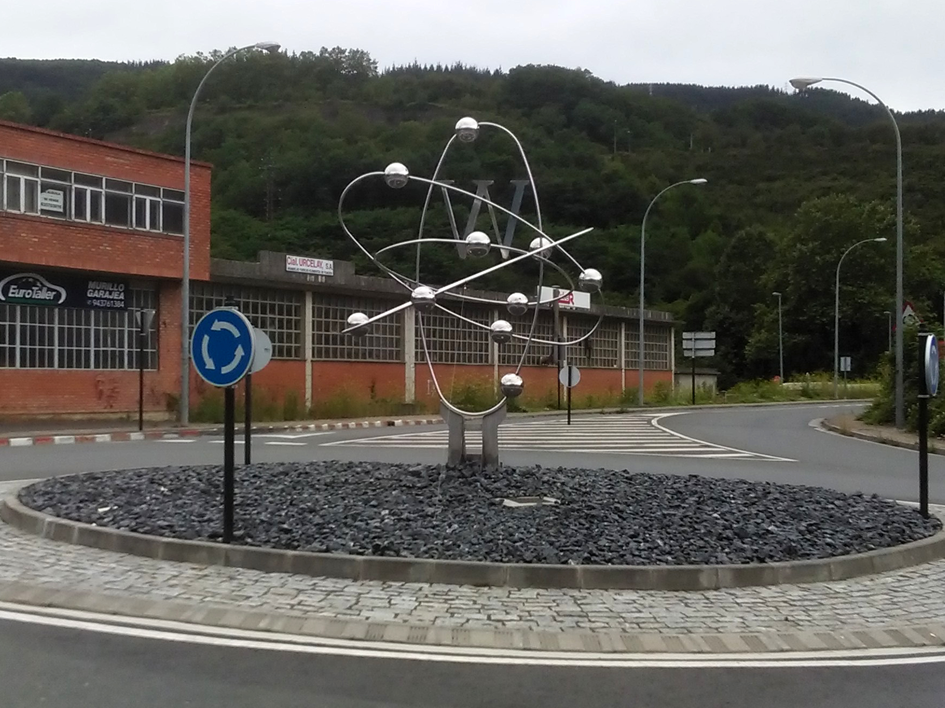 Sculpture of wolfram (tungsten) in Bergaran (Basque Country), place of the discovery of this chemical element.